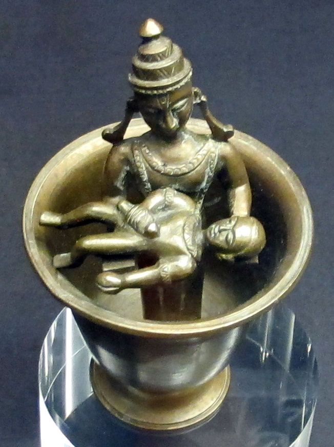 Museo di storia naturale (Florence) - Anthropology and Ethnography section - India